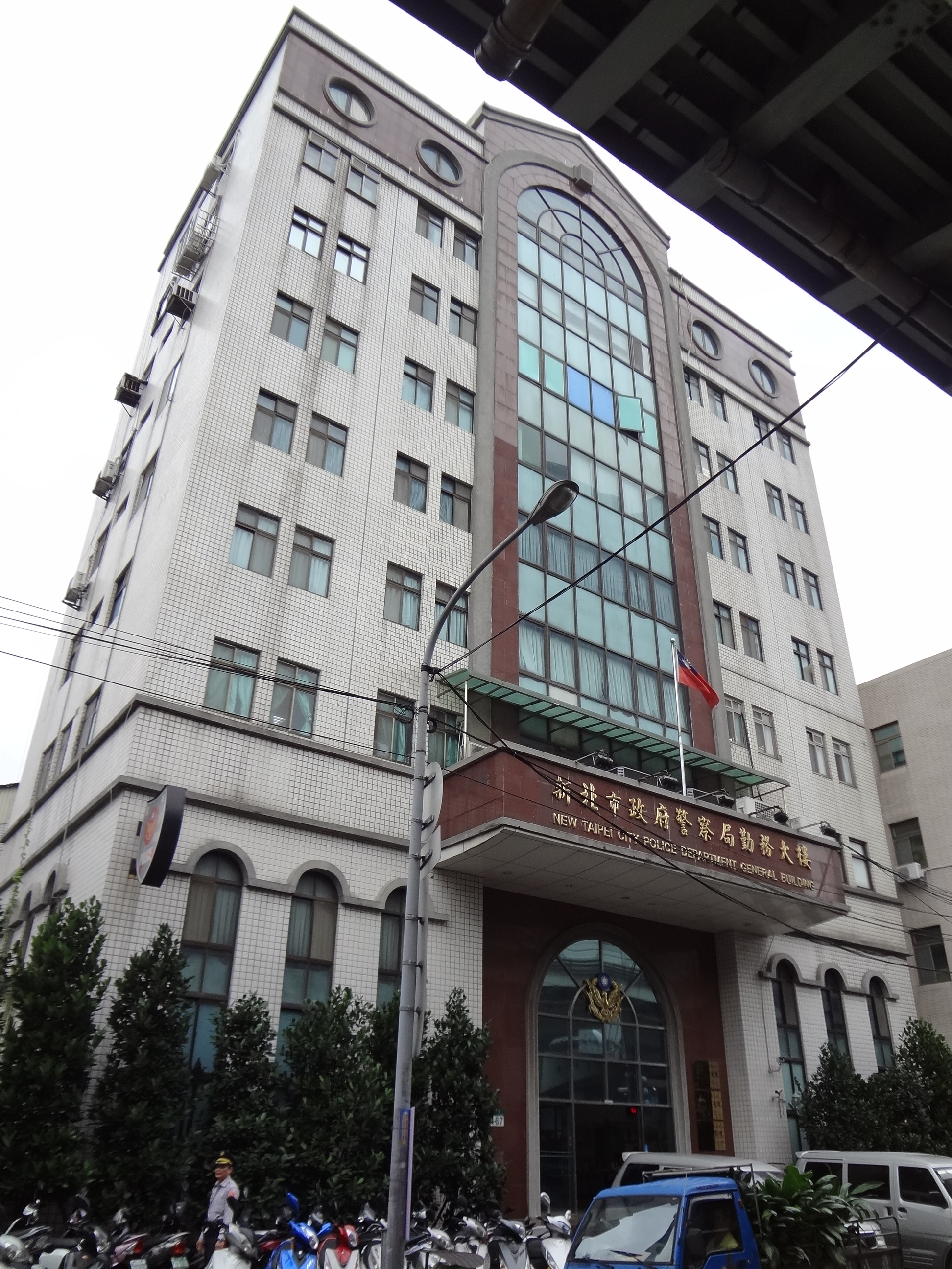 New Taipei City Police Department General Building.中文（台灣）: 新北市政府警察局勤務大樓，地址：新北市中和區中正路1167號。